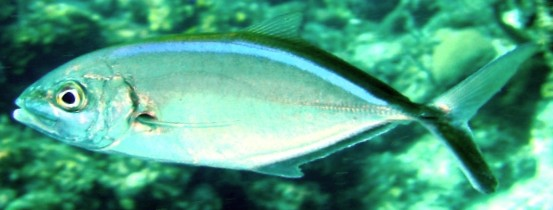 The bar jack, Carangoides ruber. A cropped and colour adjusted image of the original photograph for use in a taxobox